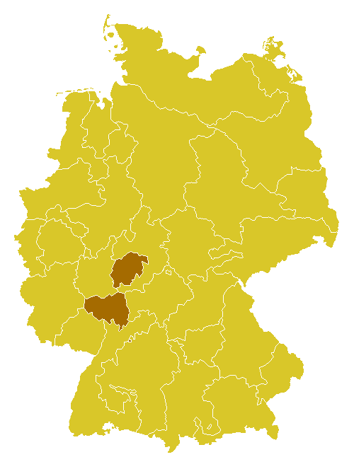 site of dioecese Mainz, Germany